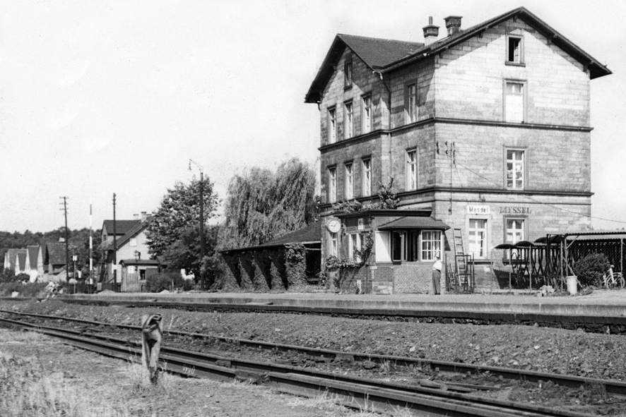 Station Building Messel